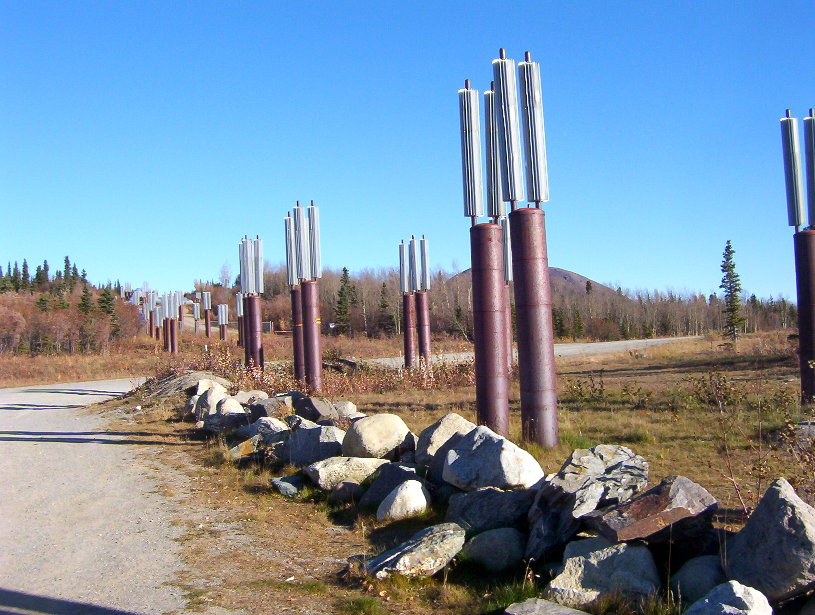 a buried section of the Trans-Alaska Pipeline crossing the Richardson Highway, near Donnelly Dome, Alaska